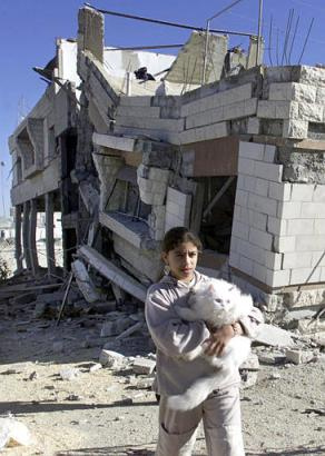 Sumayya and her cat in front of her family's demolished home in Balatah refugee camp , 2002, Second Intifada